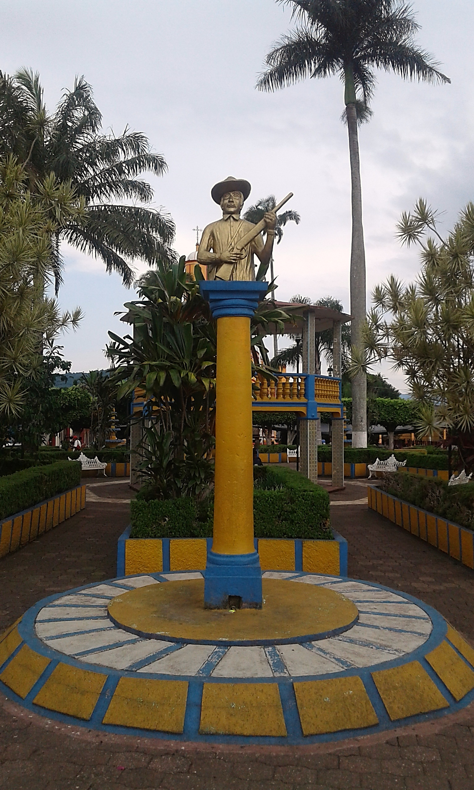 monument in amatlán